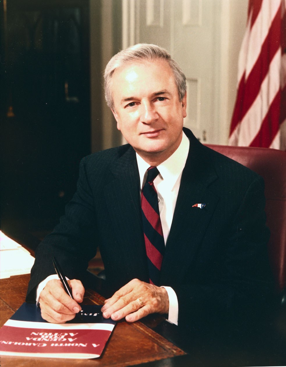 James Baxter Hunt, Jr., 1993 - 2001 From the General Negative Collection, State Archives of North Carolina, Raleigh, NC.